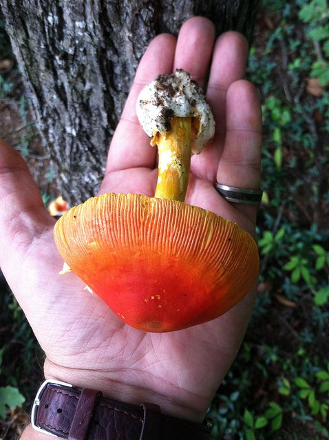 Amanita jacksonii (common name: American Caesar's Mushroom) with visible volva sac at end of stem.